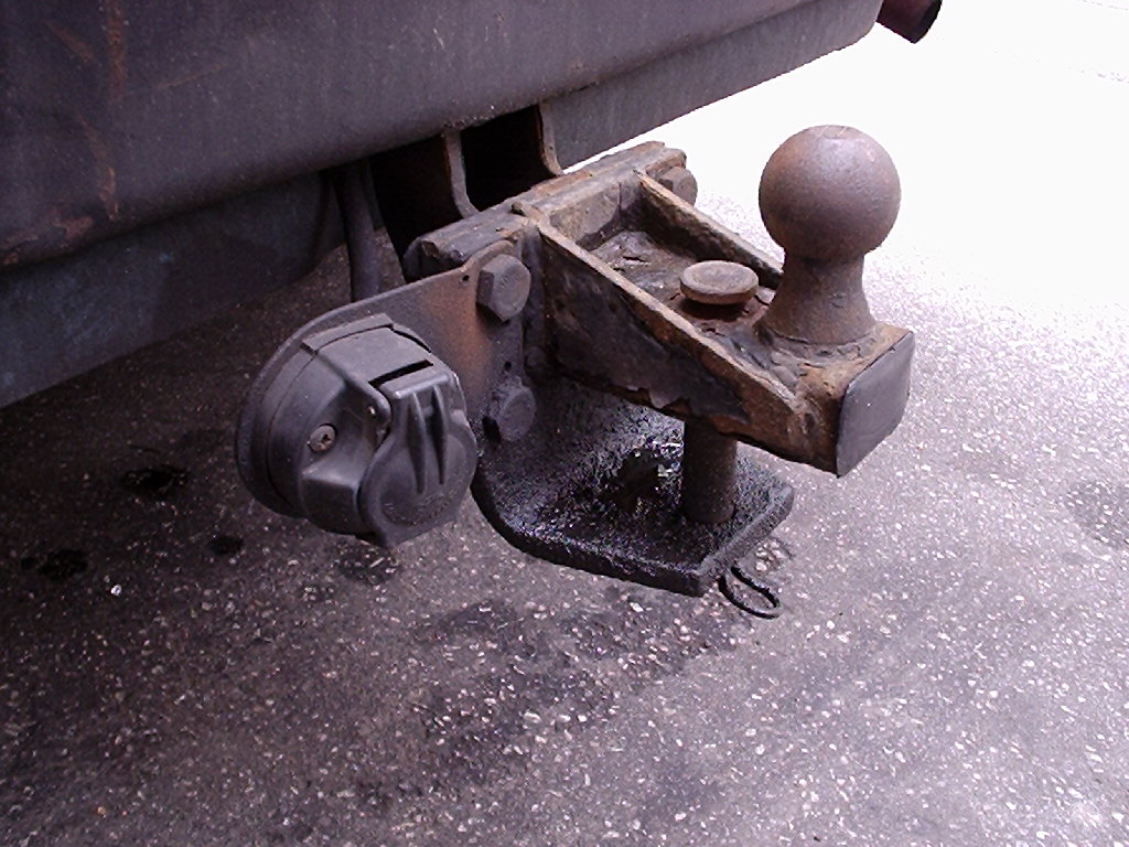 Combined trailer coupling device (please insert technical words for ball and pin) and 12 volt (7 pin) socket for light on trailer.